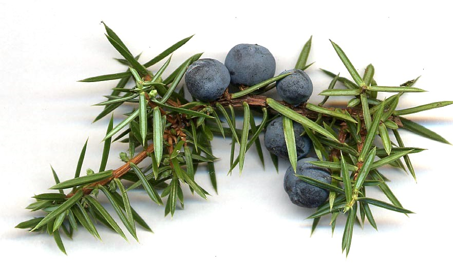 Juniperus communis cones, from wild plant, 250 m altitude, South Tyne valley, Northumberland, UK; September 2004